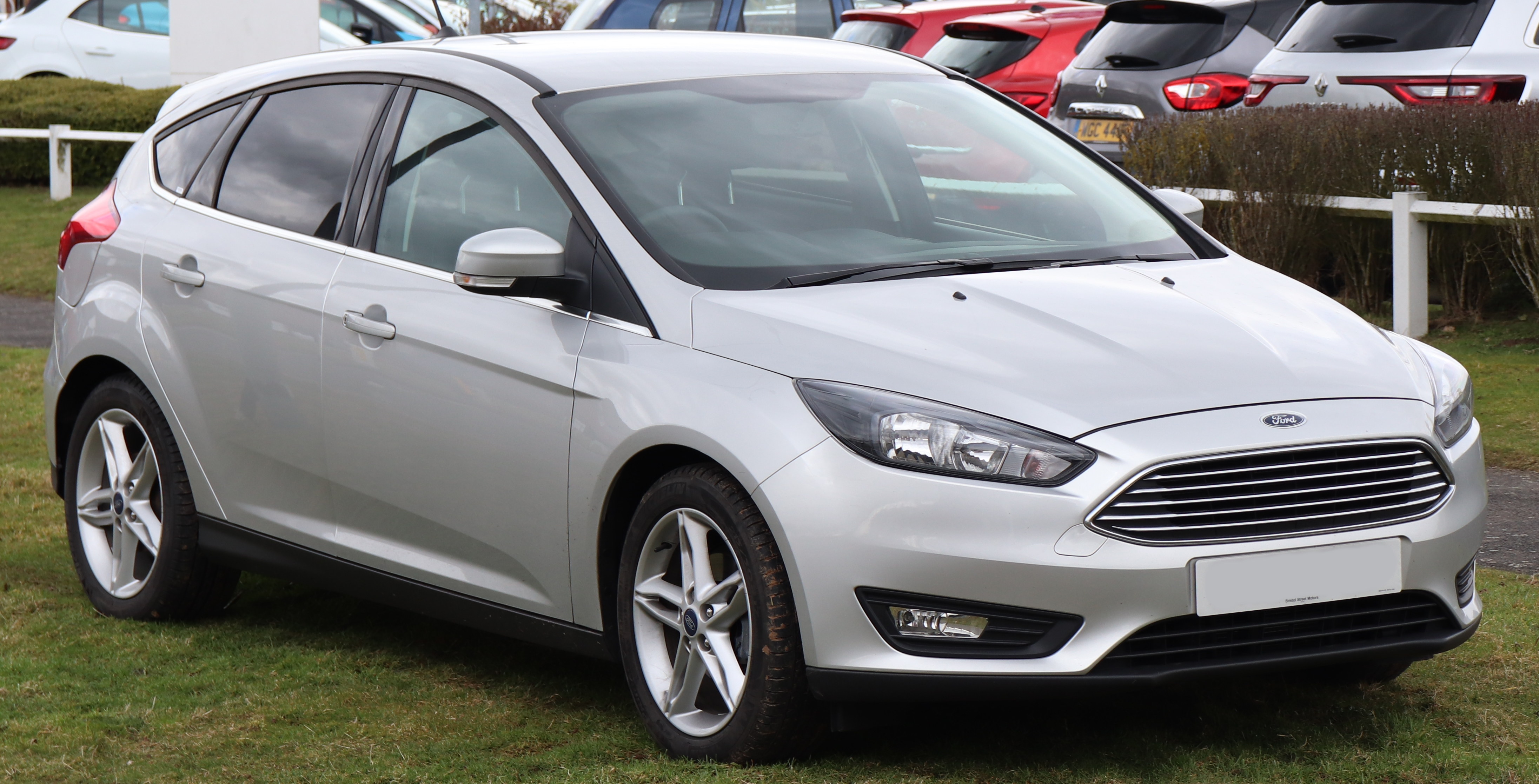 2017 Ford Focus Zetec Edition 1.0 Front, photographed in Leamington Spa